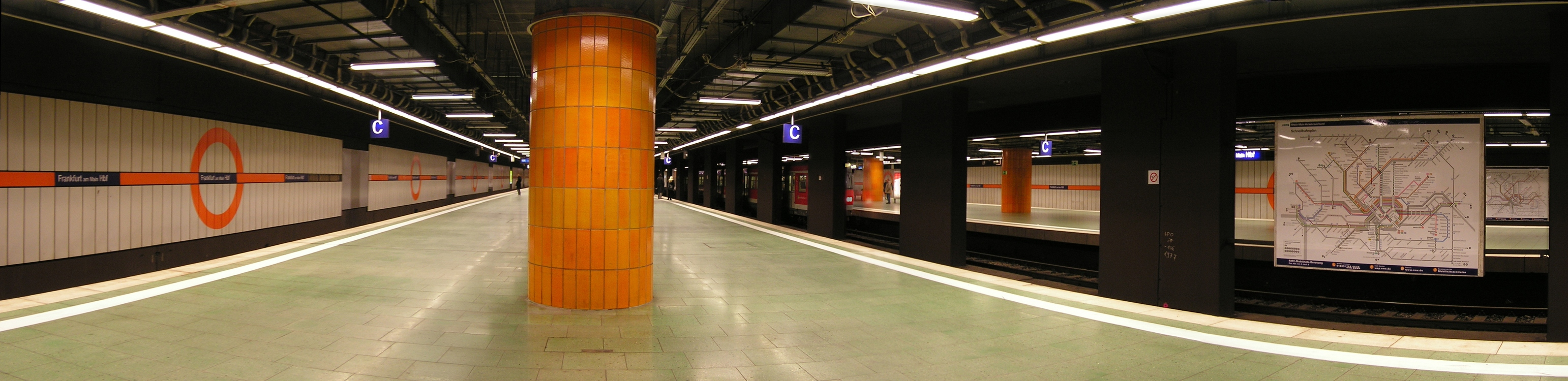 Frankfurt Hauptbahnhof underground station for the S-Bahn (not subway!)